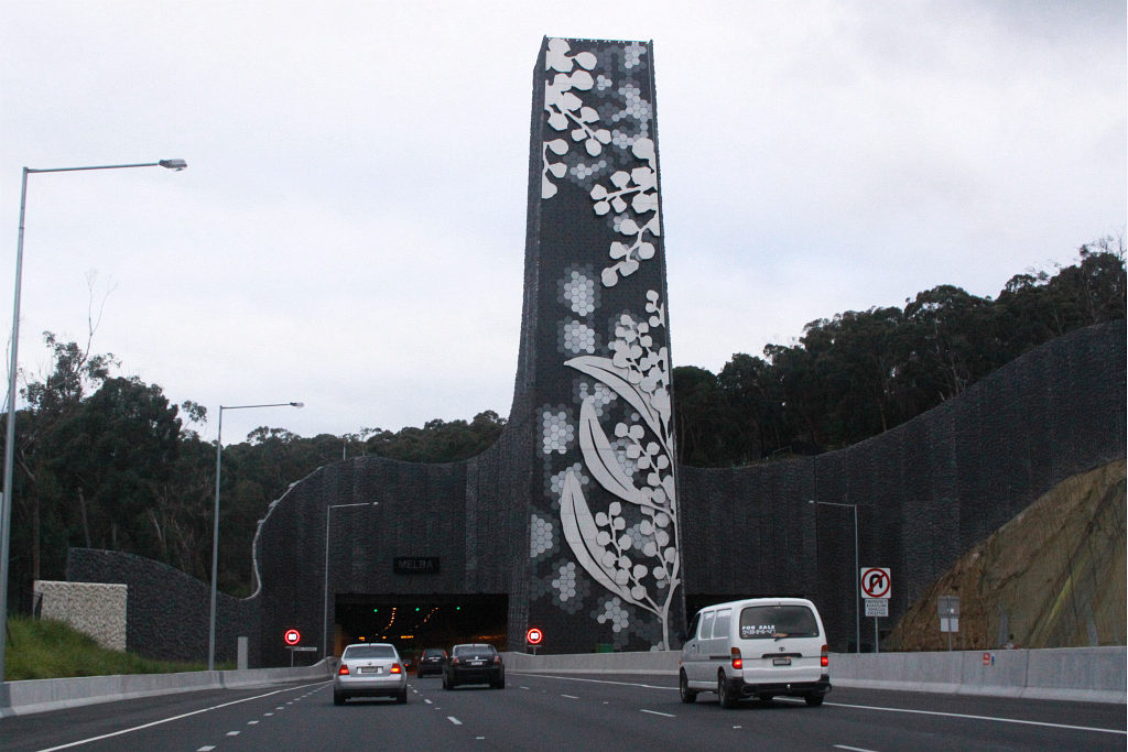 EastLink (Melbourne), Ringwood / eastern portal of the tunnels, heading into the westbound Melba Tunnel